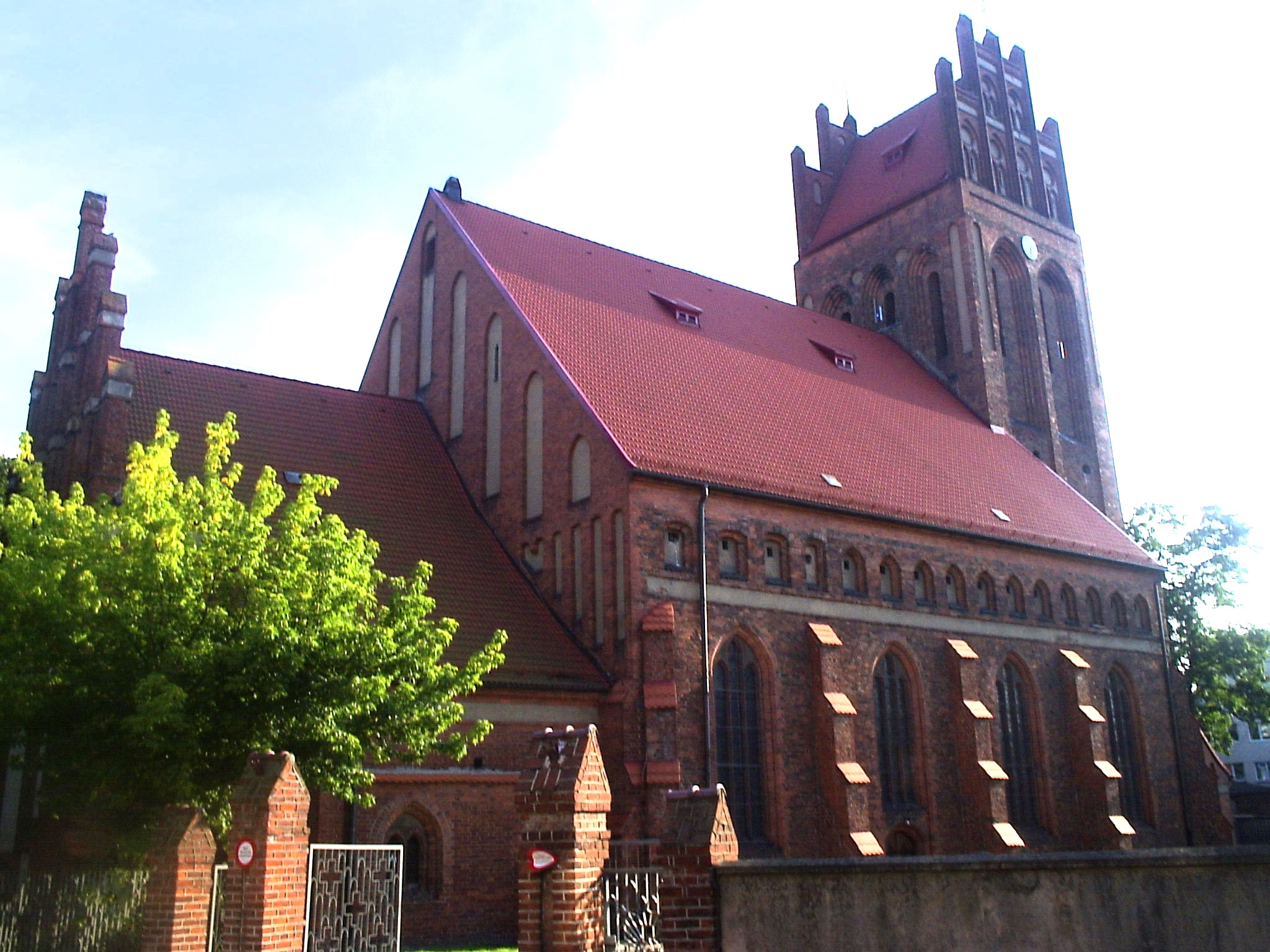 Church św. Jakuba - Lębork, Poland